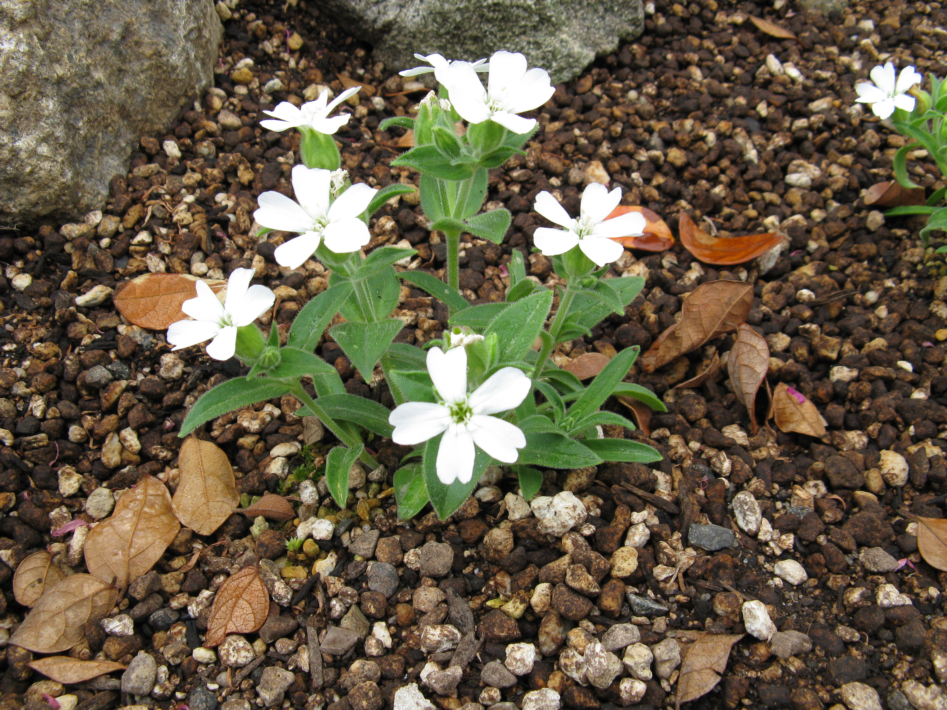 Scientific name Silene sachalinensis Place:Osaka,Japan